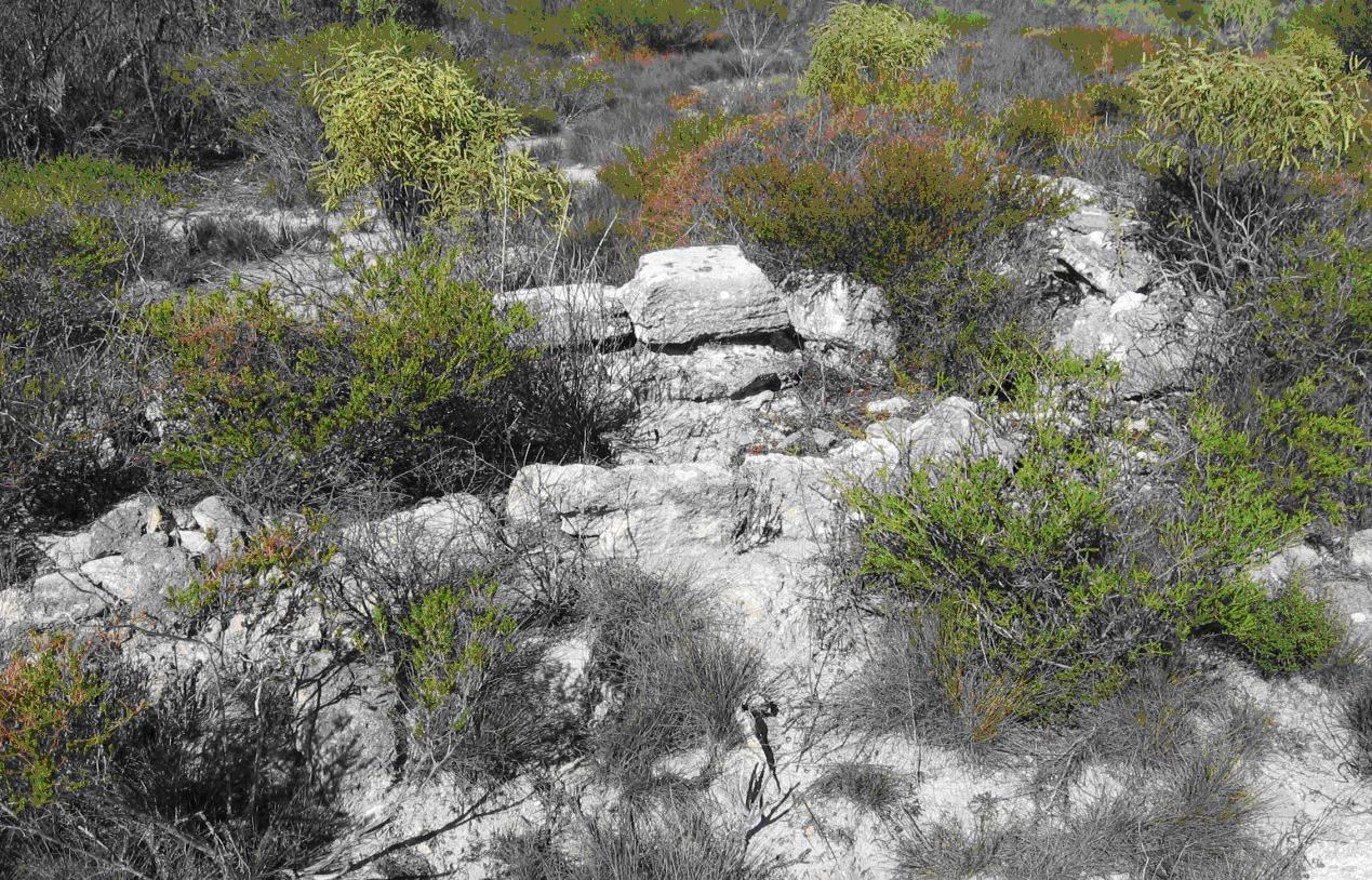 Man-made stone wall